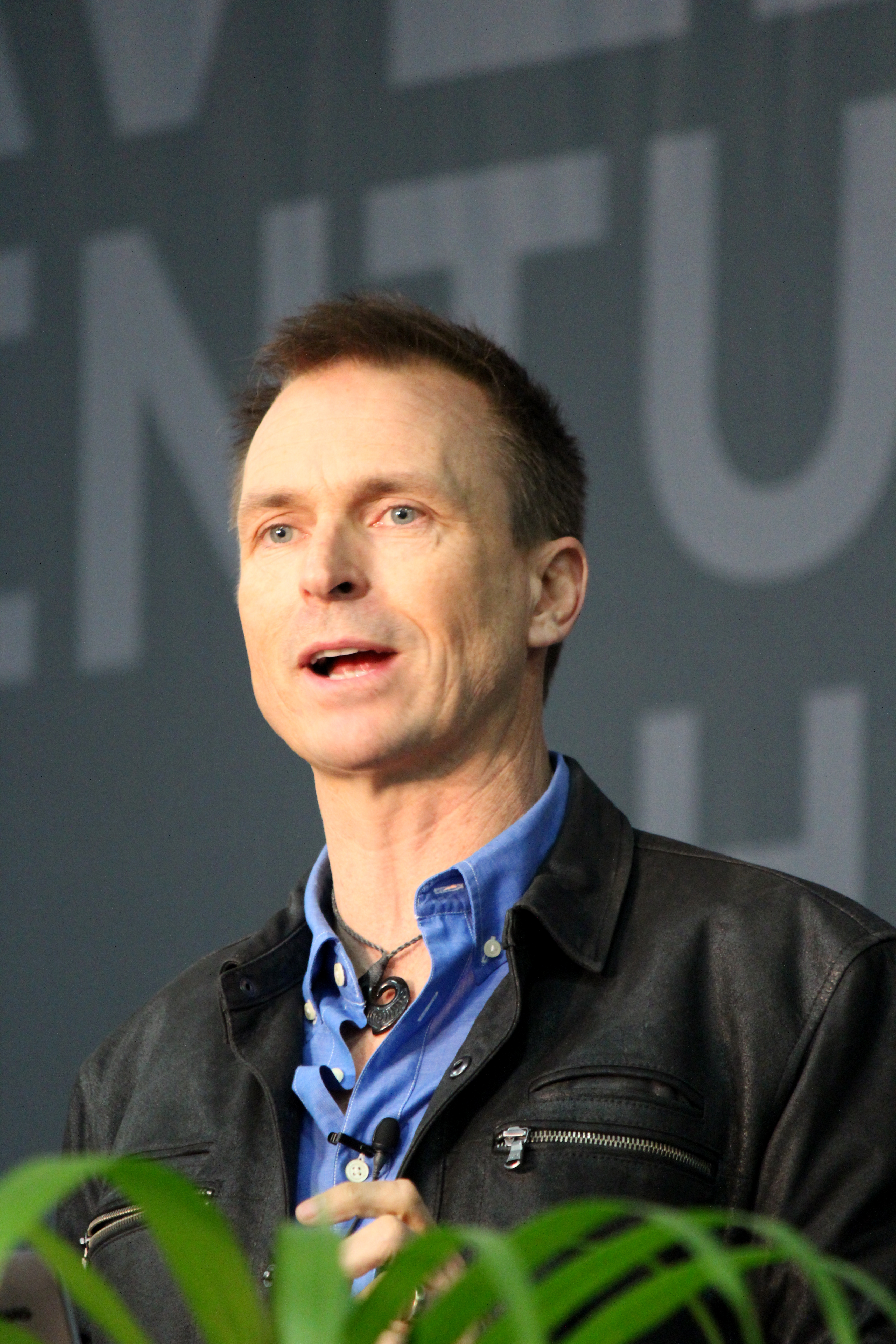 Phil Keoghan speaking at the San Diego Travel & Adventure Show at the San Diego Convention Center.